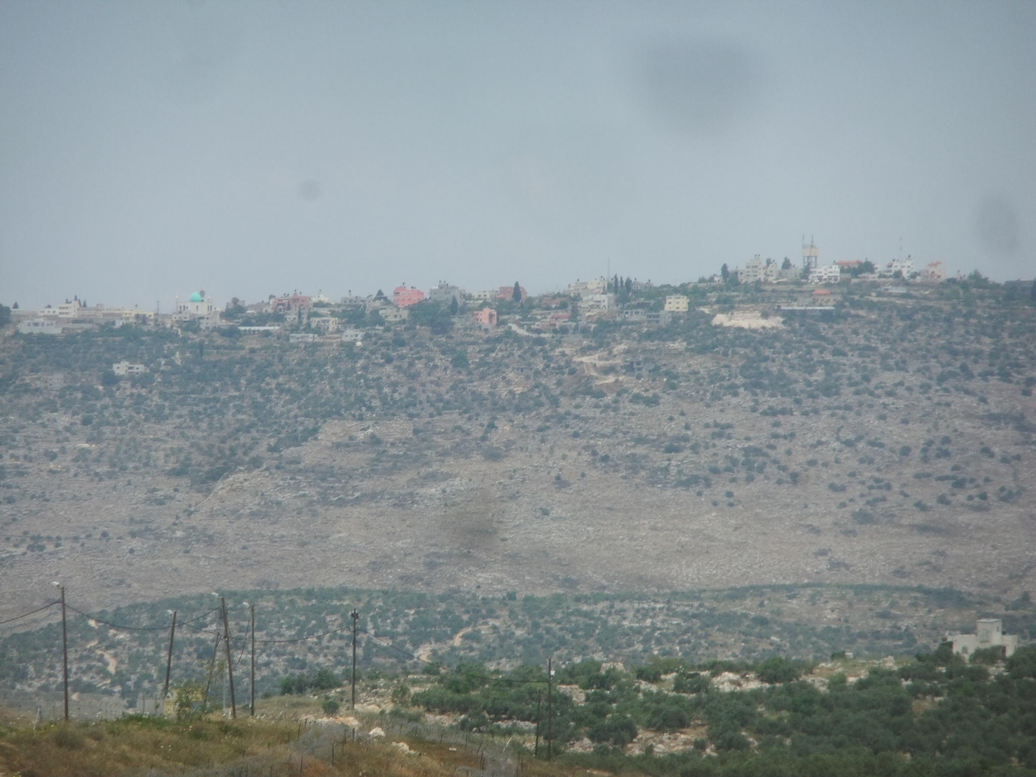 Southern area of Bal'a from Einav in the south